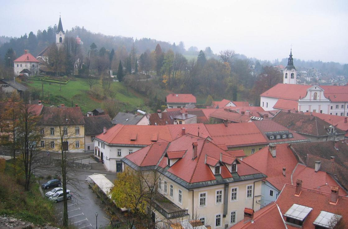 Part of the old town; Kamnik, Slovenia. by --Sl-Ziga 21:05, 6 November 2005 (UTC)